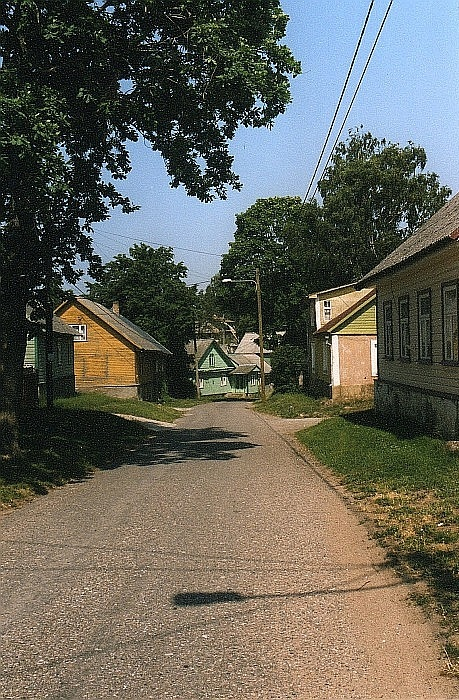 The Old-Russian town called Kallaste near the lake of Peipsi in Estonia.